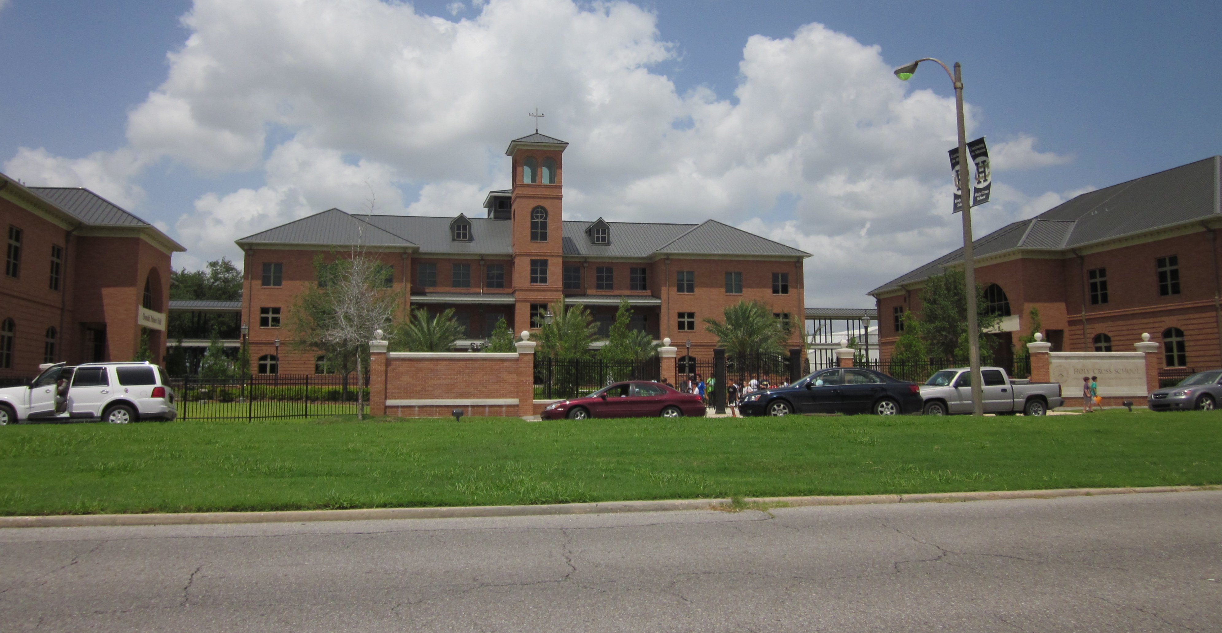 New Orleans: Holy Cross High School, new campus in the Gentilly neighborhood, seen from Paris Avenue.